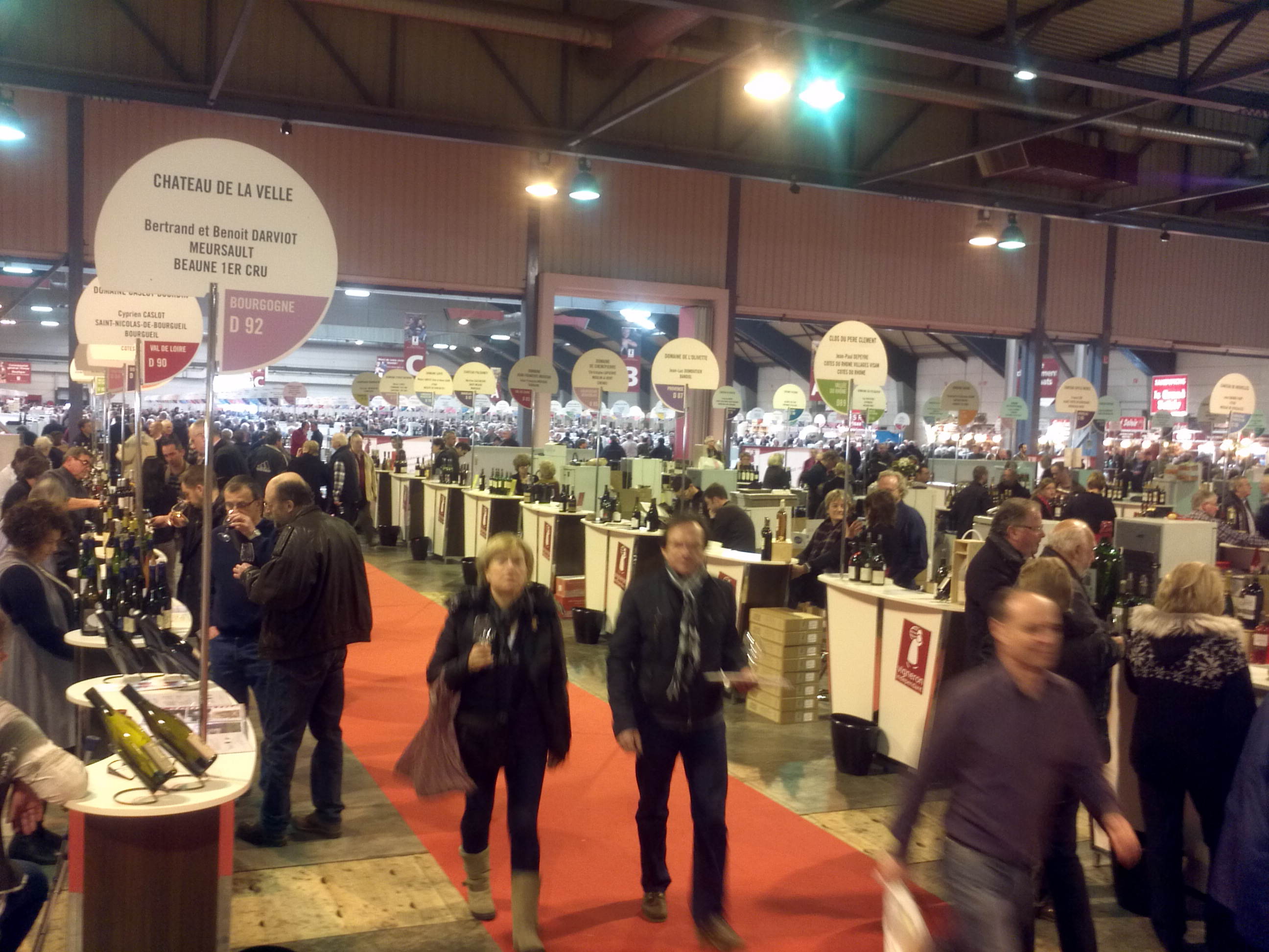 Salon des Vins des Vignerons Indépendants, Strasbourg Wine Fair 2012